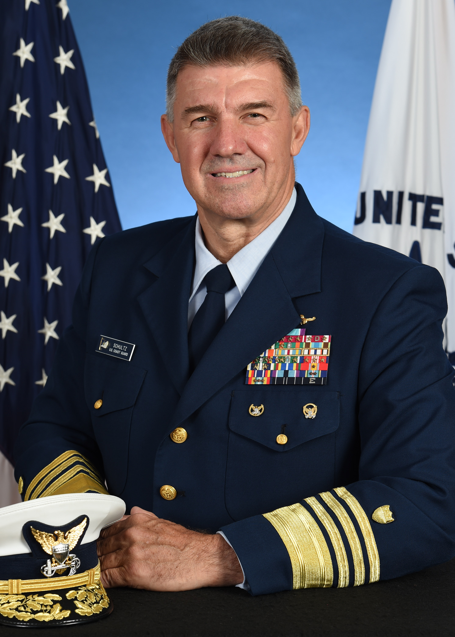 Adm. Karl L. Schultz